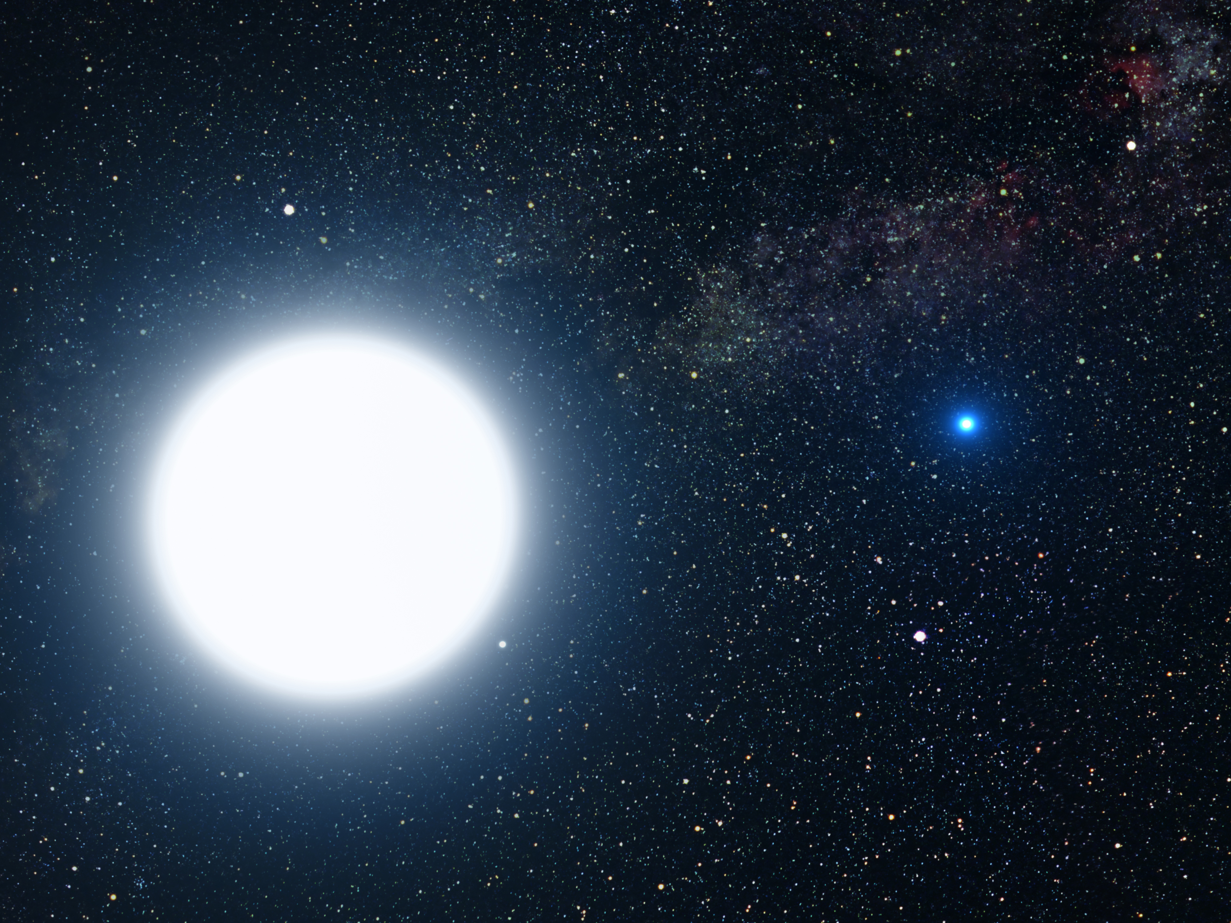 This picture is an artist's impression showing how the binary star system of Sirius A and its diminutive blue companion, Sirius B, might appear to an interstellar visitor. The large, bluish-white star Sirius A dominates the scene, while Sirius B is the small but very hot and blue white-dwarf star on the right. The two stars revolve around each other every 50 years. White dwarfs are the leftover remnants of stars similar to our Sun. The Sirius system, only 8.6 light-years from Earth, is the fifth closest stellar system known. Sirius B is faint because of its tiny size. Its diameter is only 7,500 miles (about 12 thousand kilometres), slightly smaller than the size of our Earth. The Sirius system is so close to Earth that most of the familiar constellations would have nearly the same appearance as in our own sky. In this rendition, we see in the background the three bright stars that make up the Summer Triangle: Altair, Deneb, and Vega. Altair is the white dot above Sirius A; Deneb is the dot to the upper right; and Vega lies below Sirius B. But there is one unfamiliar addition to the constellations: our own Sun is the second-magnitude star, shown as a small dot just below and to the right of Sirius A.